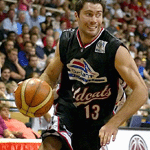 Liam Rush with the Perth Wildcats, circa 2004/2005